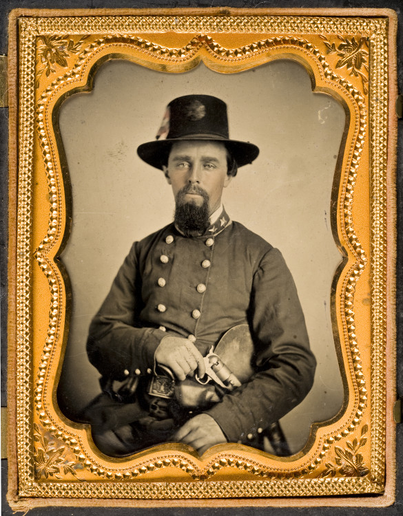 Title: Lieutenant Colonel Julius A. Andrews (1838–1928), The Thirty-second Texas Cavalry Regiment (Andrews's), Confederate States Army Creator: Unknown Date: ca. 1862 Part Of: Lawrence T. Jones III Texas photography collection Physical Description: 1 photograph: quarter plate tintype, hand colored; 8.3 x 10.8 cm. File: ag2008_0005_1_07_01_andrews_opt.jpg Rights: Please cite DeGolyer Library, Southern Methodist University when using this file. A high-resolution version of this file may be obtained for a fee. For details see the web page. For other information, . For more information, View the Lawrence T. Jones III Texas Photographs at